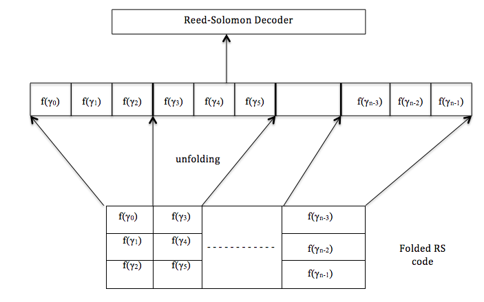 Demonstrates how a Folded Reed-Solomon Code can be decoded.